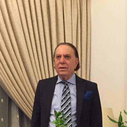 personal image